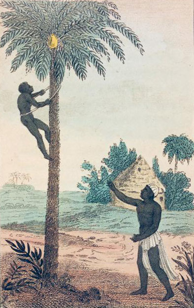 « A Negro ascending a Palm Tree for its Wine »